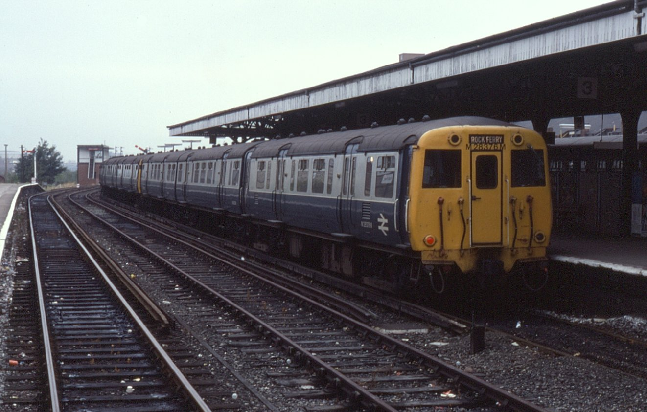 6-car class 503 set seen at Rock Ferry on 24 September 1983 forming the 09:35 Rock Ferry to Liverpool Central. Formation from front of train (furthest away): M28676M+M29706M+M29275M & M29138M+M29821M+M27376M (closest to camera).